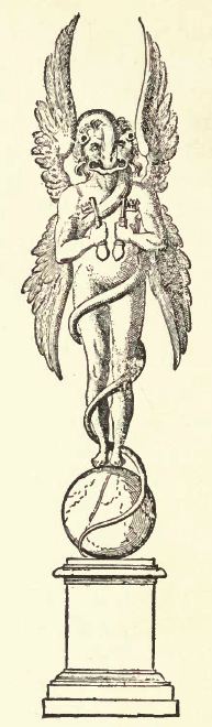 Mithraic Kronos or Aeon of Infinite time, Leontocephaline of Mithraic Mysteries or Mithraism.